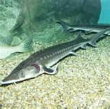 Japanese sturgeon, Acipenser multiscutatus, in Vladivostok Oceanarium